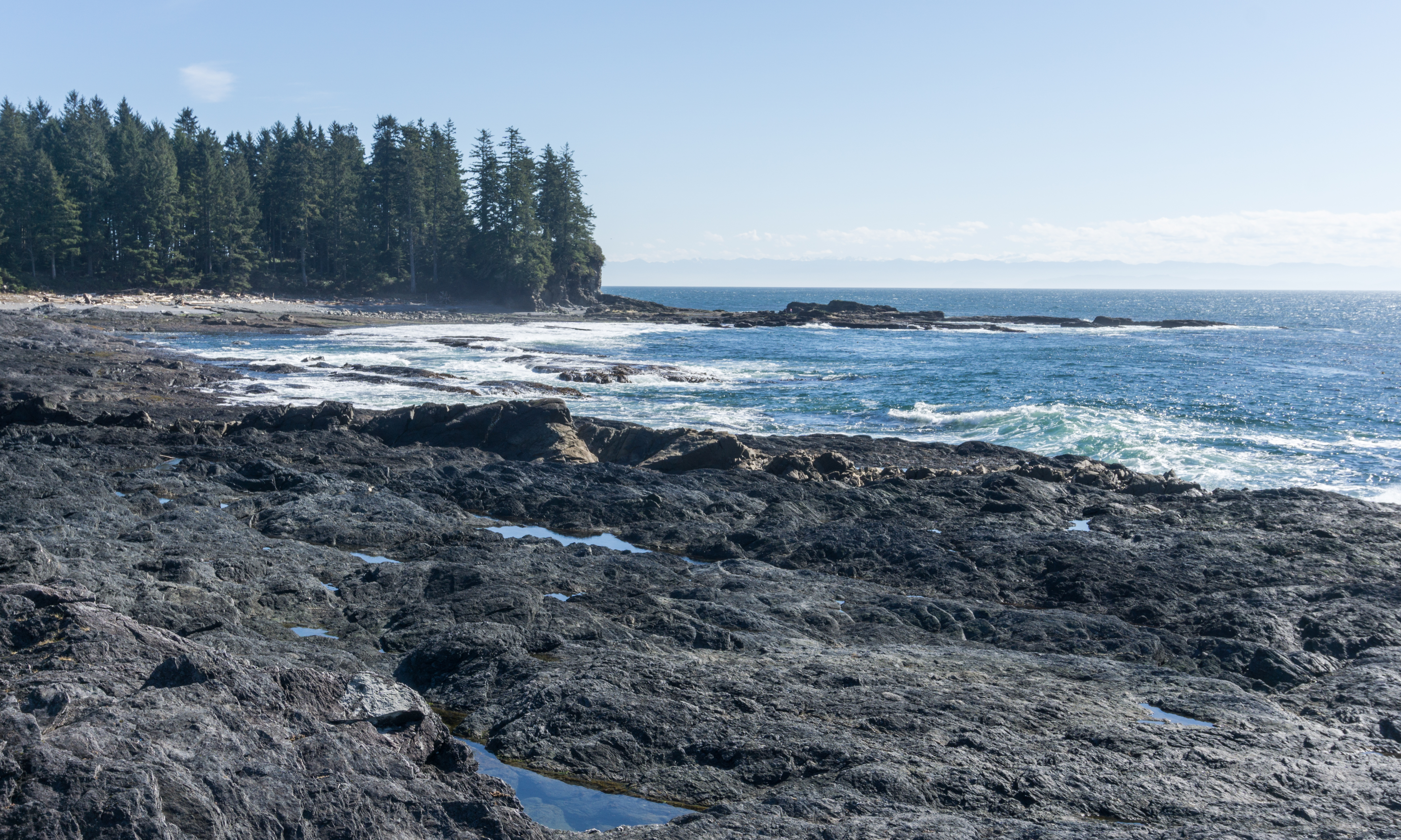 Botanical Beach, Vancouver Island, Canada